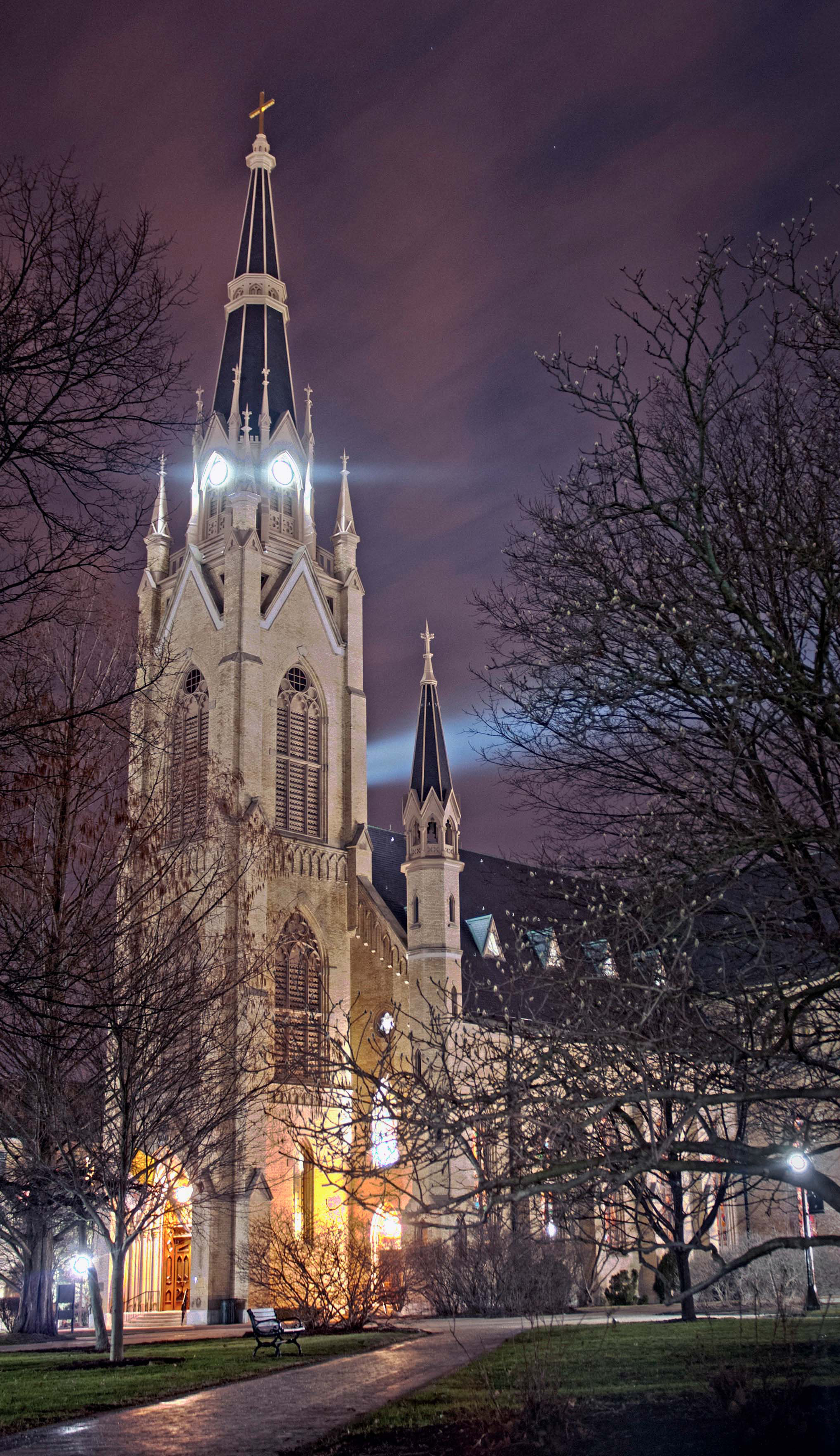 Basilica of the Sacred Heart at Notre Dame at night. Long exposure HDR.